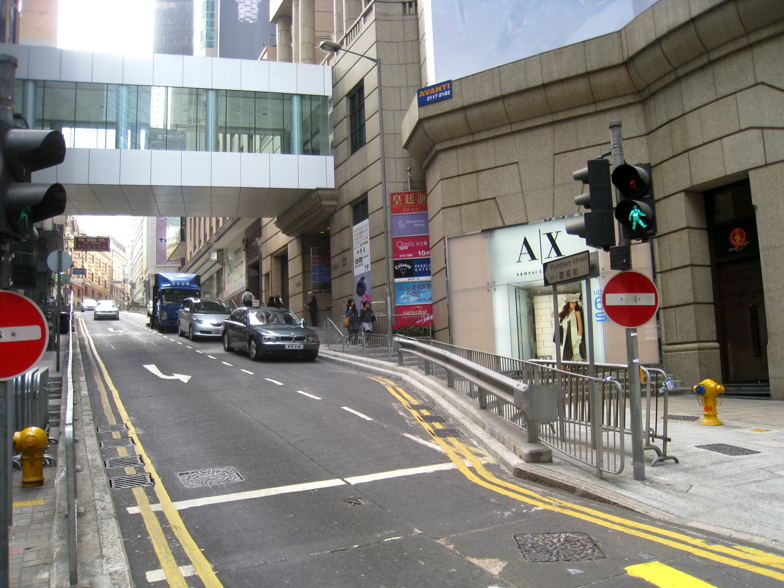 HK Wyndham Street 雲咸街